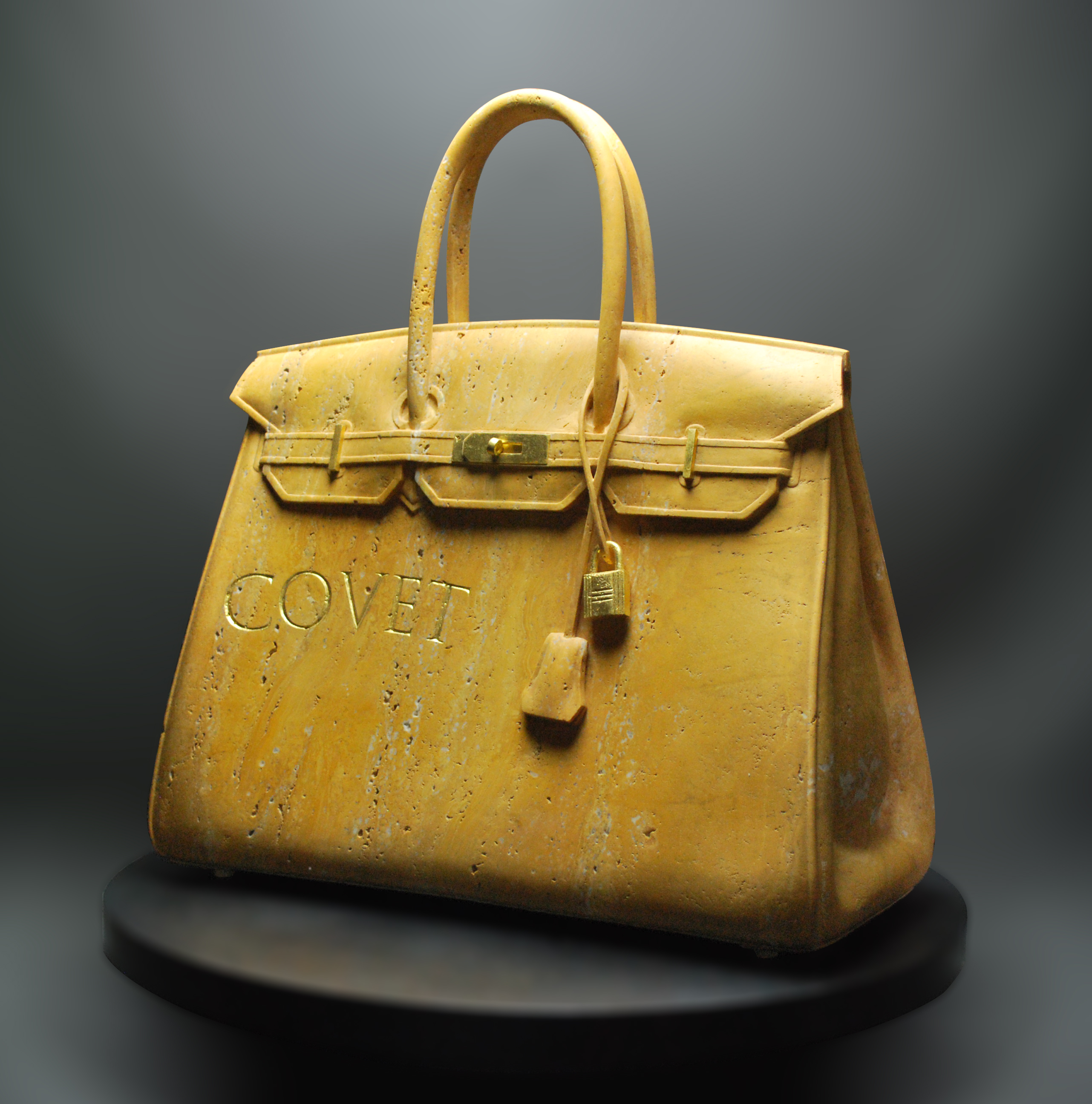 I am combining the original uses of stone: carved idols for worship and stone tablets for recording history (The Ten Commandments) with contemporary “icons” such as the Birkin. The word “Covet” seen clearly from the front connotes the desire to own such a bag and makes one think about the original use of the word.